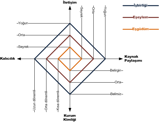 The file depicts different dimensions of participation in common work.